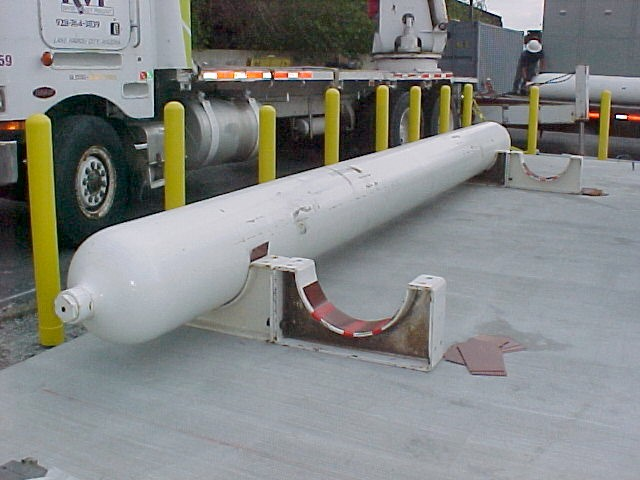 Photo taken by Jerry Myers, P.E., 03/02/2005. Subject is compressed natural gas (CNG) storage cylinder (5500 psig MAWP) in the process of being installed in saddles with micarta sheets for electrical insulation. Note red tape holding micarta temporarily in place and unused sheets at right.